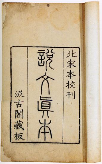 Cover page of the Shuo wen zhen ben, a dictionary dedicated to etymological descriptions of Chinese characters.